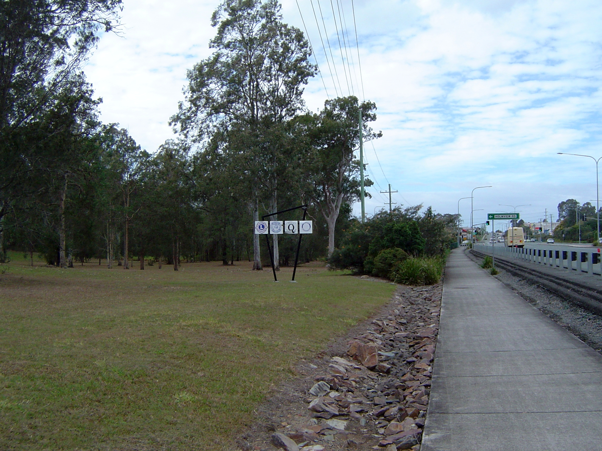 Photo of Lima Park and bikeway along Logan River Road at Holmview, Logan City, Queensland, Australia.